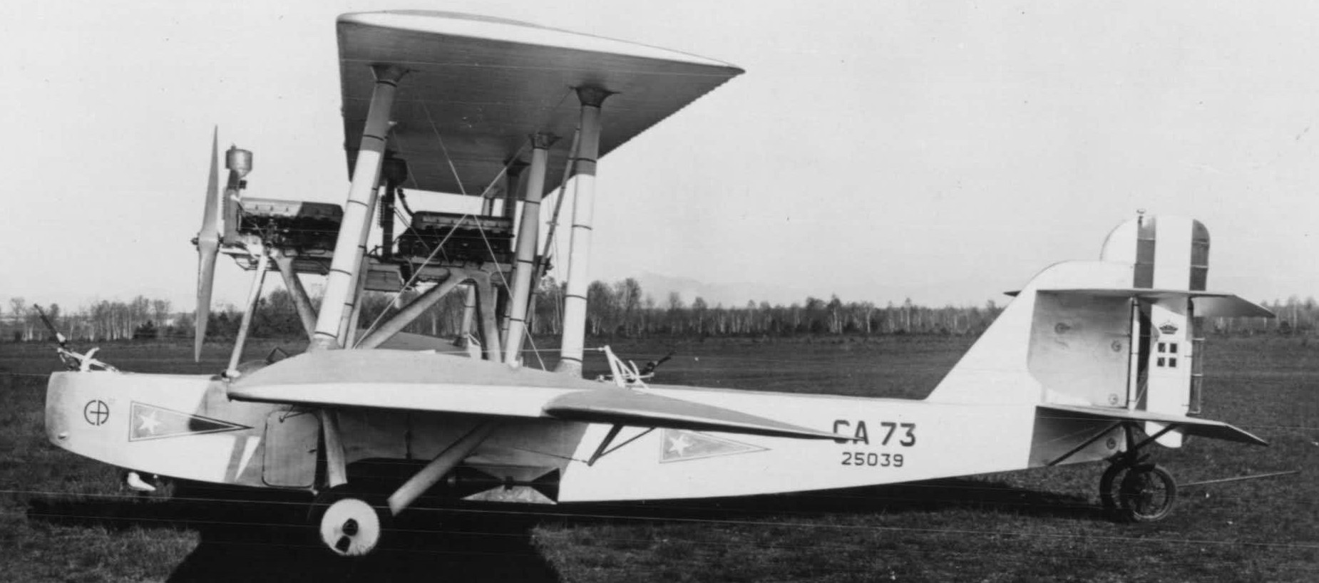 Caproni Ca.73 ter bomber left side photo NACA Aircraft Circular 51